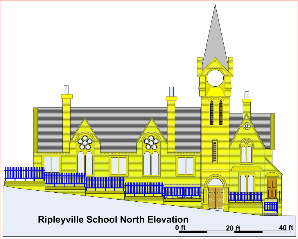 Scale Drawing of Ripley Ville school north elevation